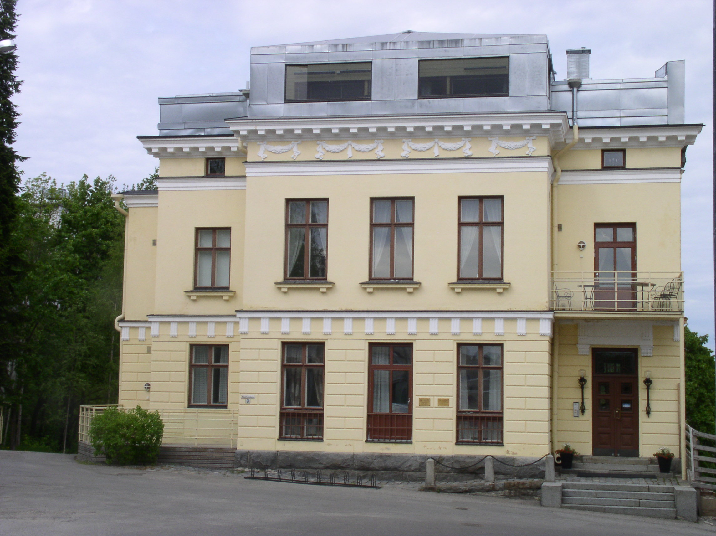 The chapter house of the Savonlinna Diocese (evangelical lutheran) (1897–1925) in Savonlinna, Finland.